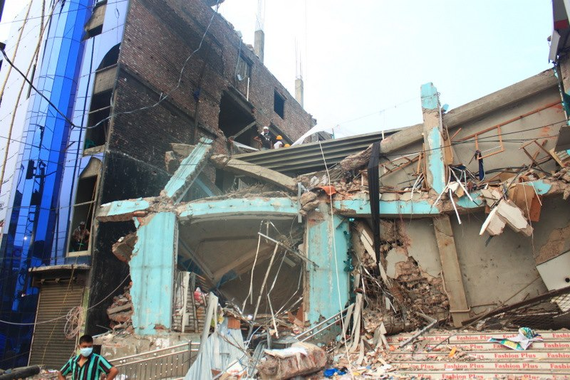 2013 Savar building collapse. portion of the collapsed building Photos taken by Sharat Chowdhury, permission obtained from him for use in Wikipedia under CC attribution.